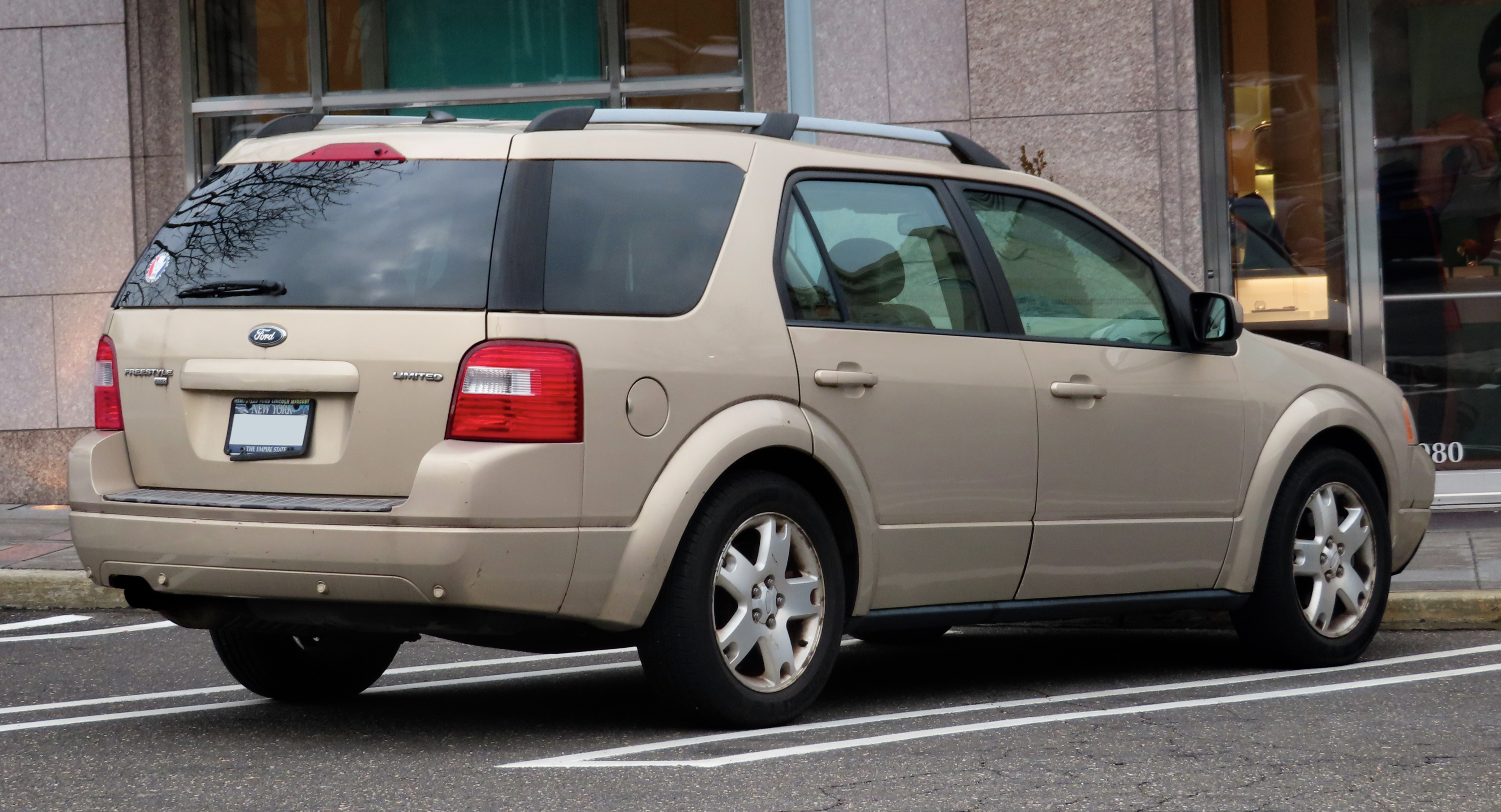 A 2007 Ford Freestyle Limited photographed at Americana Manhasset, in Manhasset, New York, USA